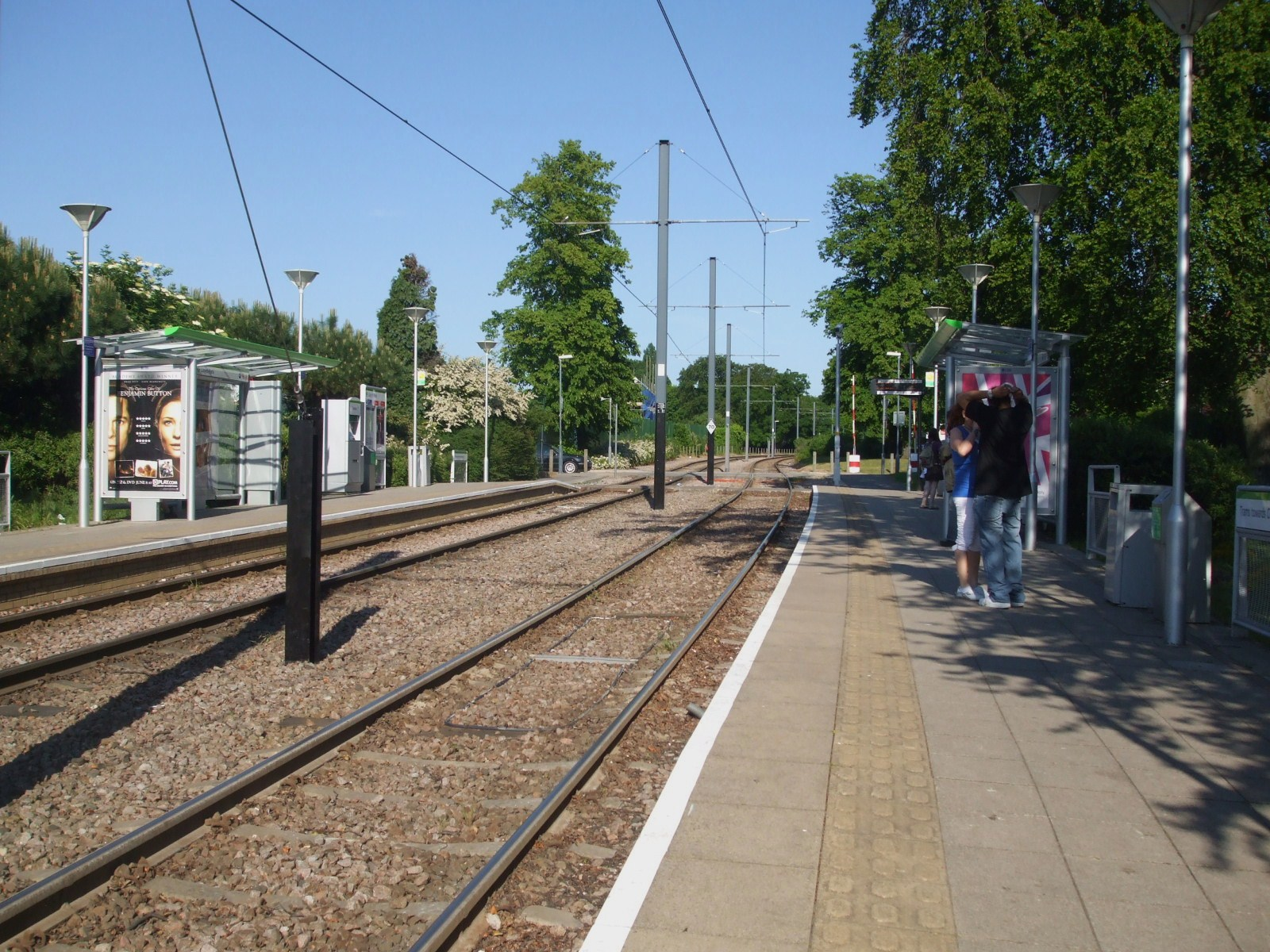 Lloyd Park tram stop looking east. Lloyd Park itself is just behind the bushes on the far left.